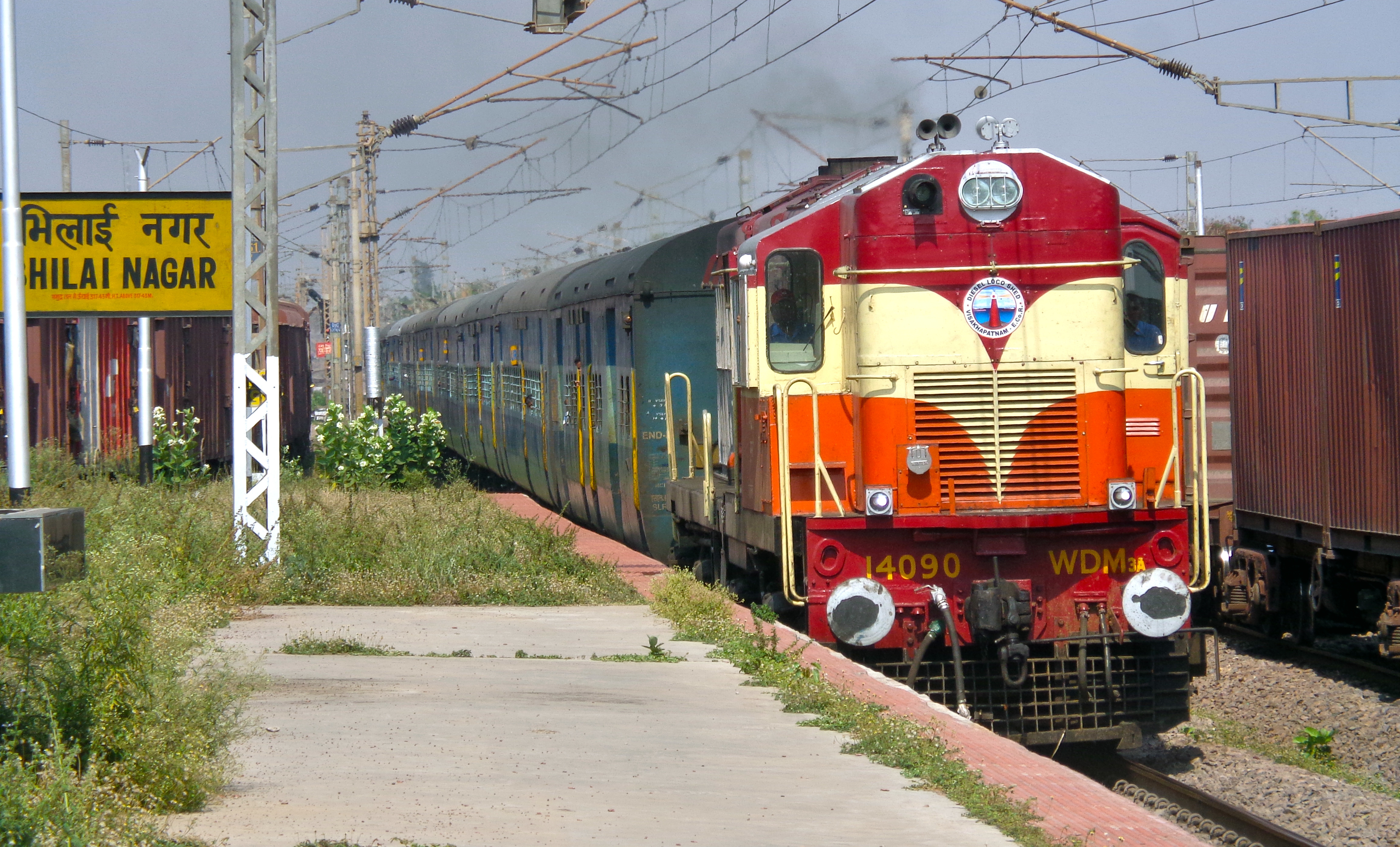 A WDM 3A loco (14090) of Visakhapatnam shed with a passenger train at Bhilai